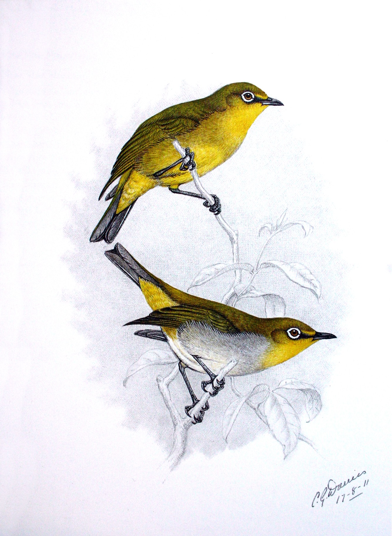 Cape White-eye (Zosterops pallidus)